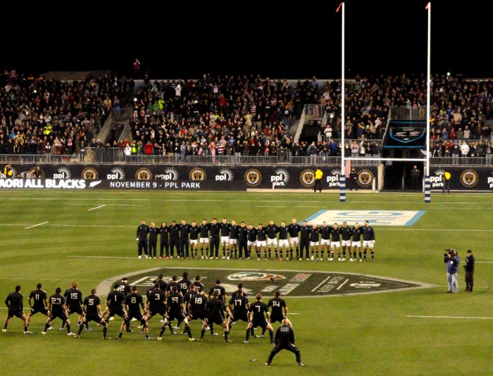 2013 Māori All Blacks tour of North America at PPL Park against the USA Eagles.